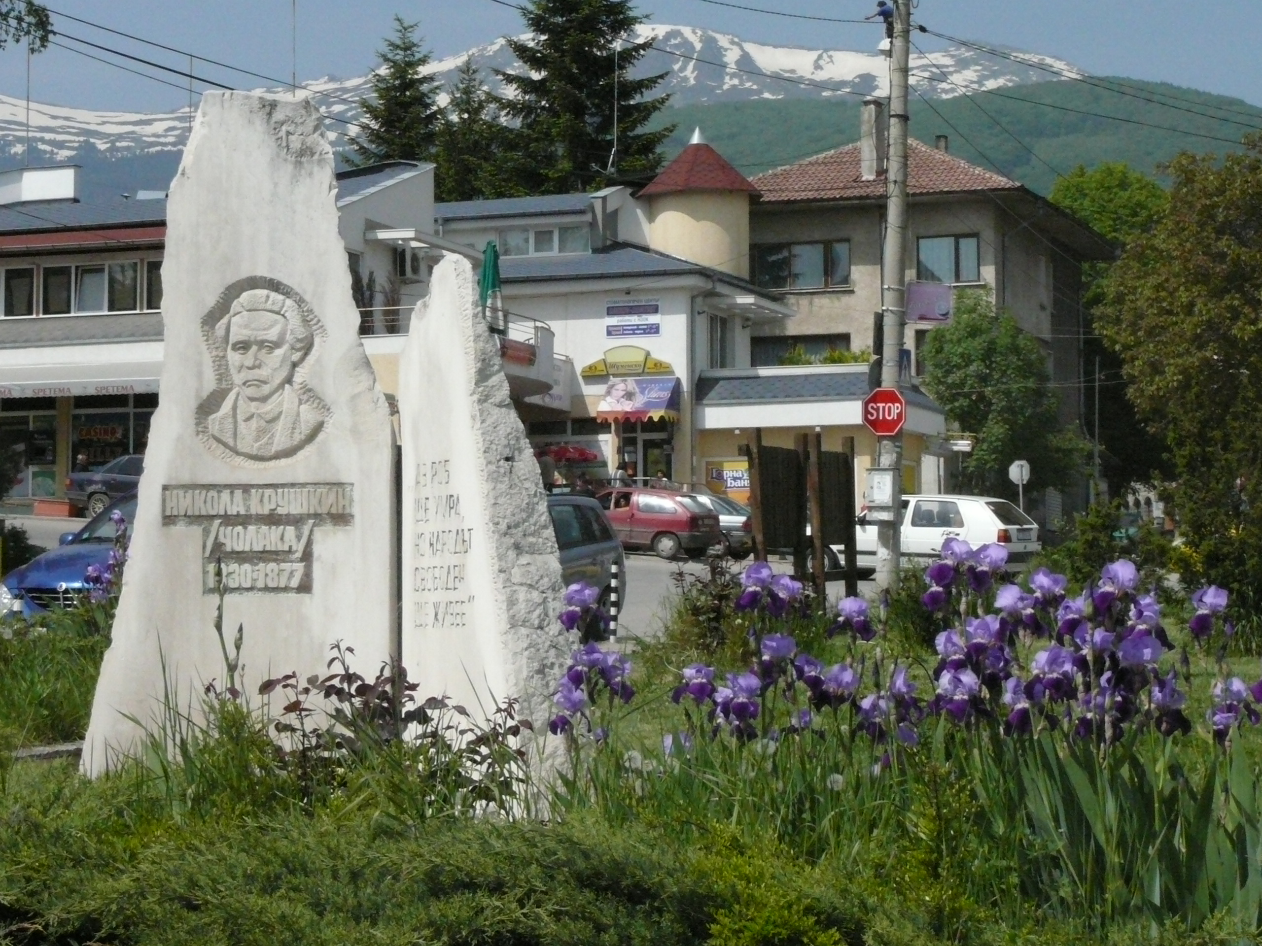 Bistritsa (Neighbourhood of Sofia), Bulgaria